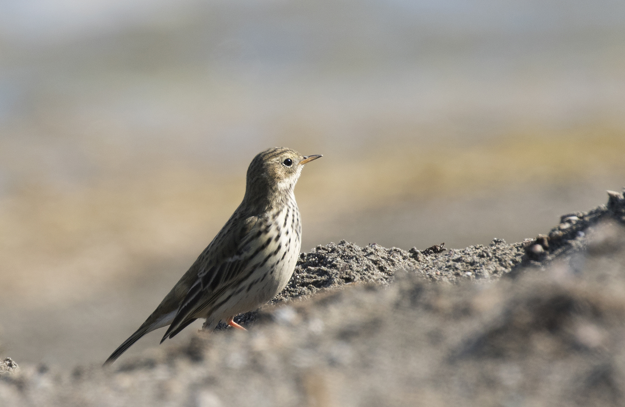 Water Pipit (Anthus pratensis). Tuzla - Karataş, Adana - Turkey.